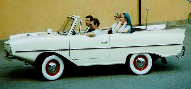 Amphicar Cabriolet 1963